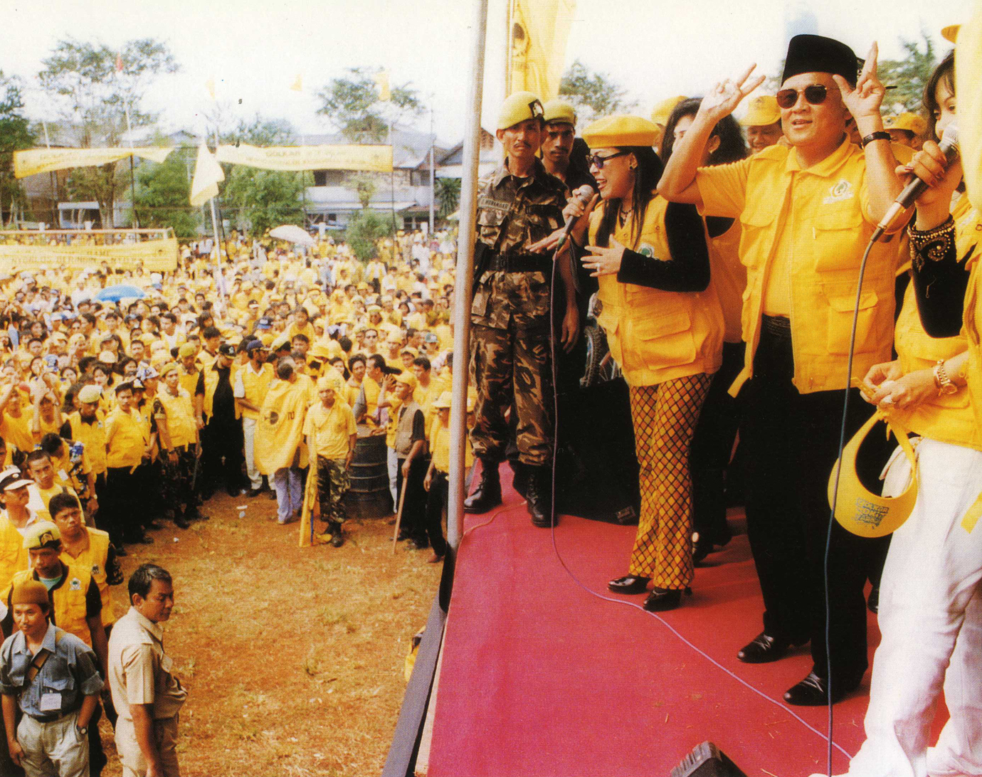 Bacharuddin Jusuf Habibie as Golkar Board of Patron member during the 1997 campaign in Tanah Abang, Jakarta.